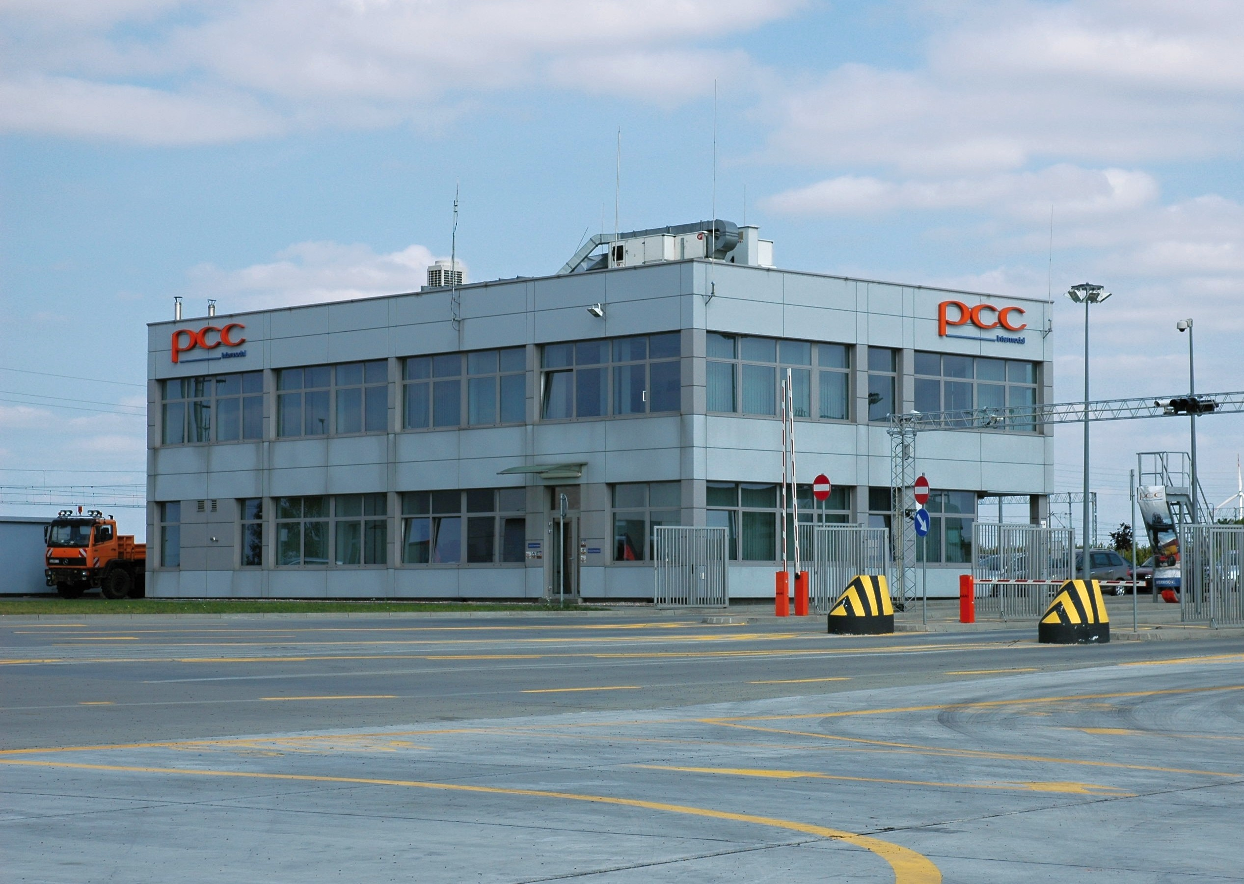 Headquarter of the PCC Intermodal Teminal of Kutno, Poland